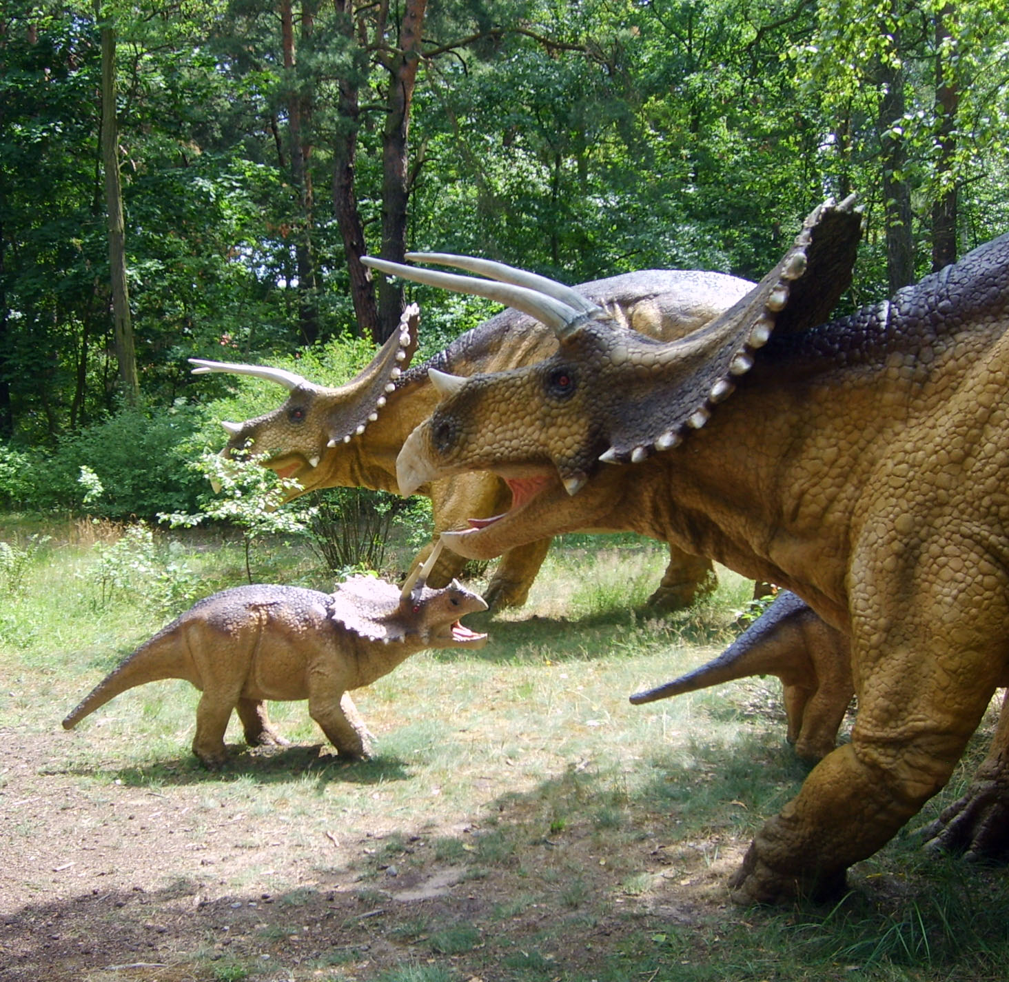 Model of dinosaur, JuraPark, Solec Kujawski, Poland